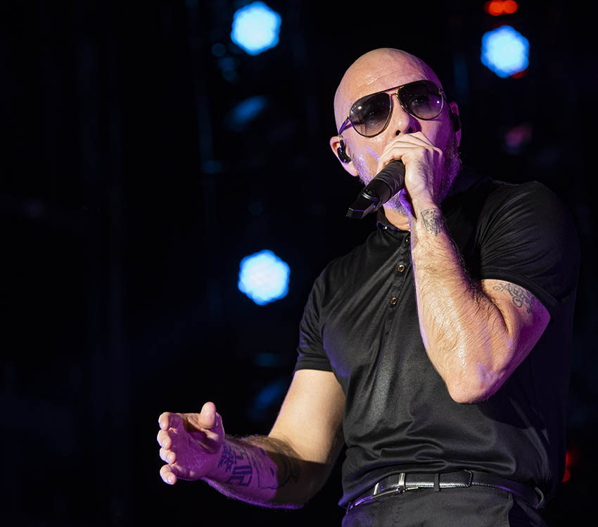 Pitbull performing live at the W3 Awards in 2019.